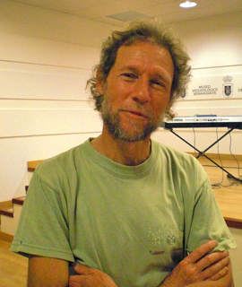 German jazz-musician Alexander Sputh at Concert in the Museo Arqueológico Benahoarita, Los Llanos